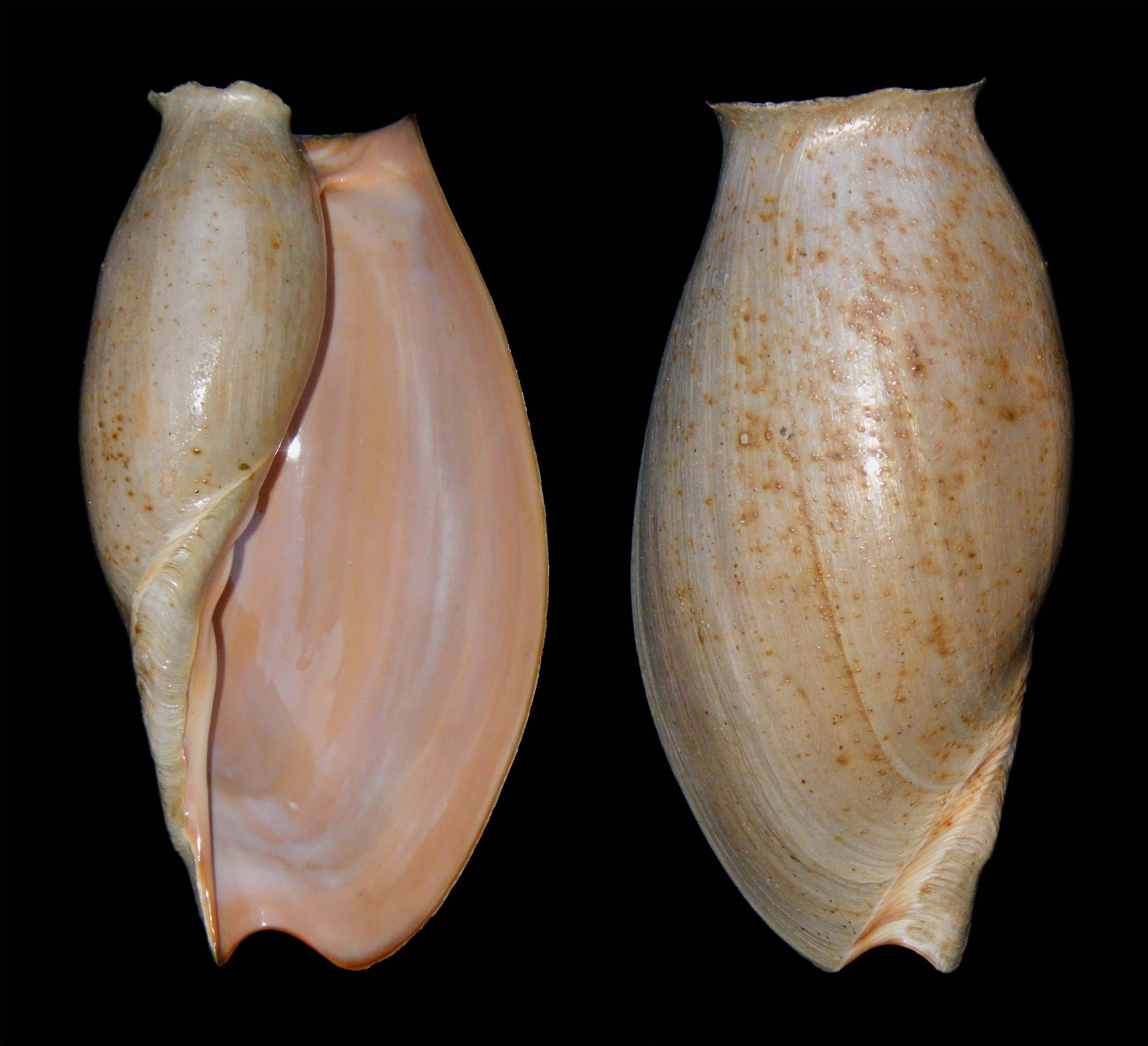 Cymbium glans Gmelin, 1791, specimen from the Gambia, 32 cm.